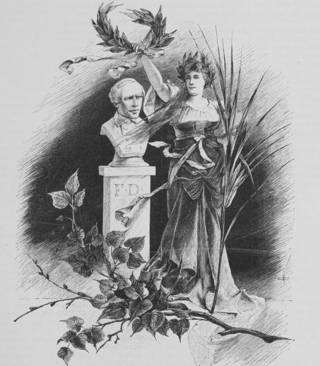 An artistic memorial to a recently deceased František Doucha, Czech writer and translator